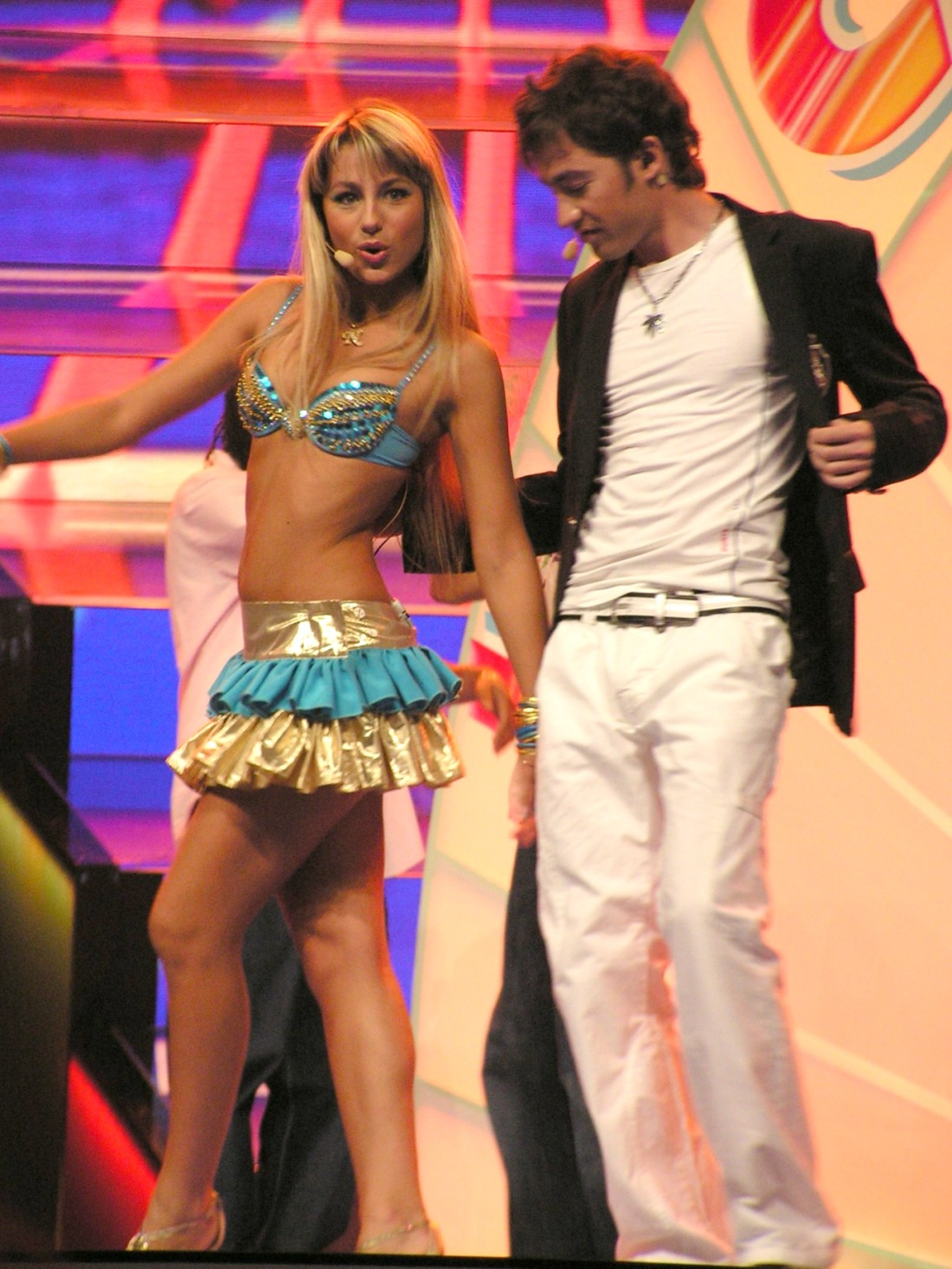 Natalia Gordienko and Arsenium (ex O-Zone) performing in the final of the Eurovision Song Contest 2006 in Athens, representing Moldova. Picture taken in the final dress rehearsal.